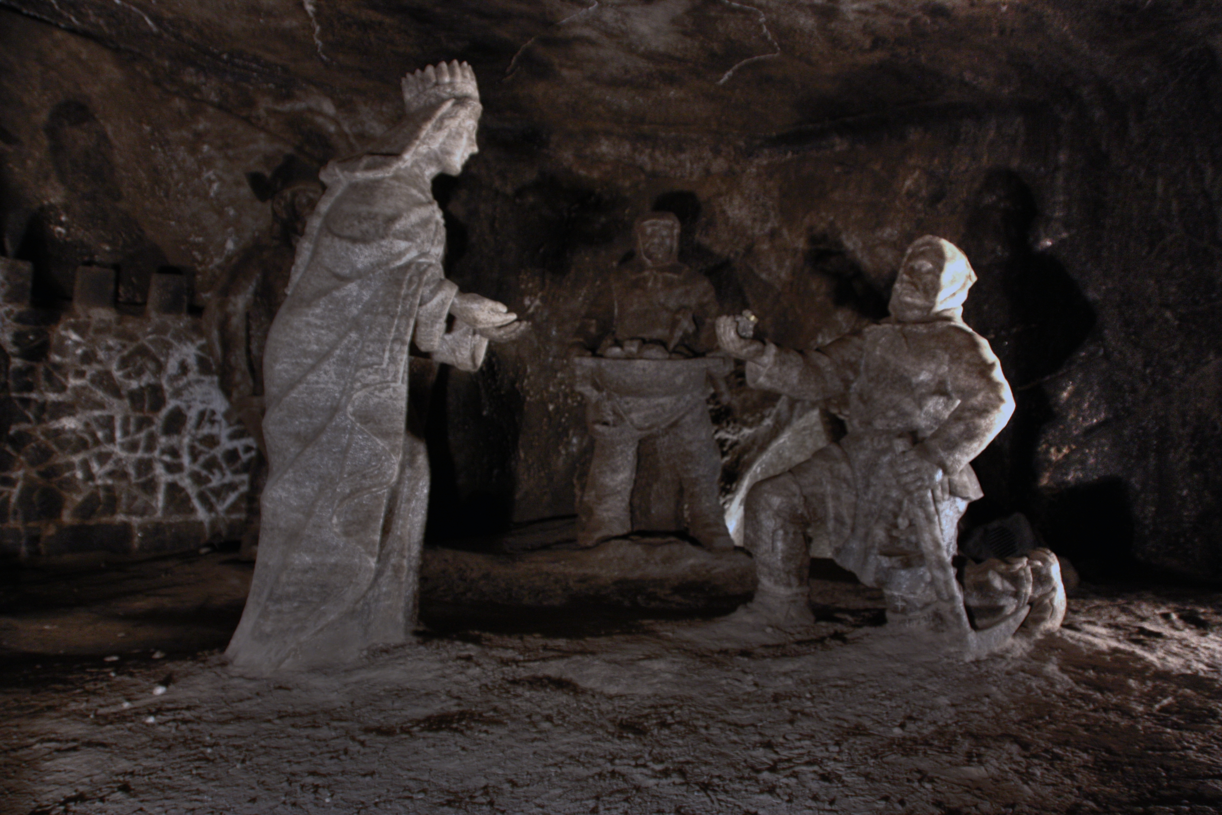 Kinga was the daughter of the Hungarian king Bela IV who married the Polish king Boleslaw the Modest in the 13th century. The story has Kinga throwing her engagement ring into the Maramures salt mine in Hungary. The ring miraculously traveled along with salt deposits to Wieliczka where it was rediscovered. St. Kinga